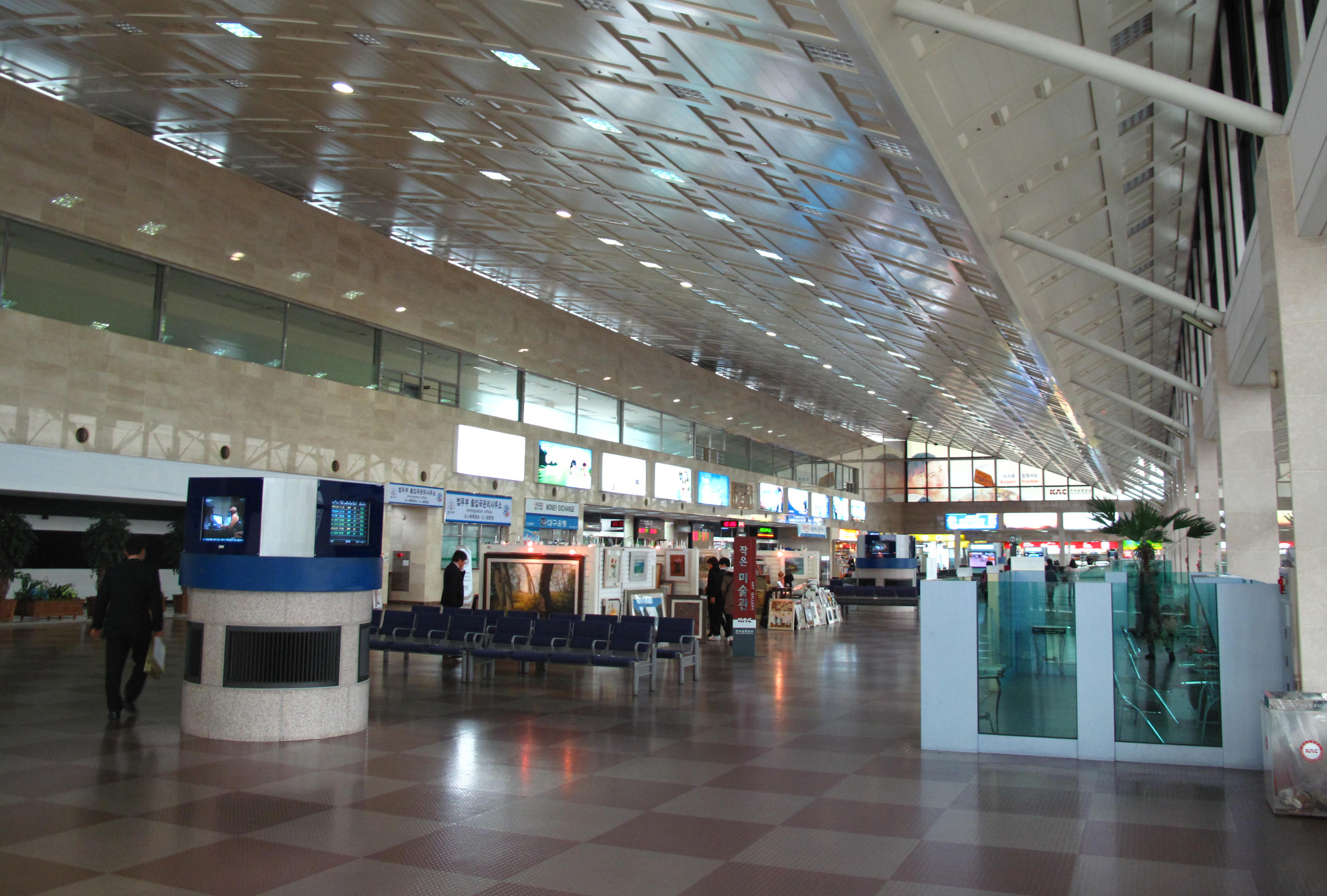 Interior at Daegu International Airport, South Korea